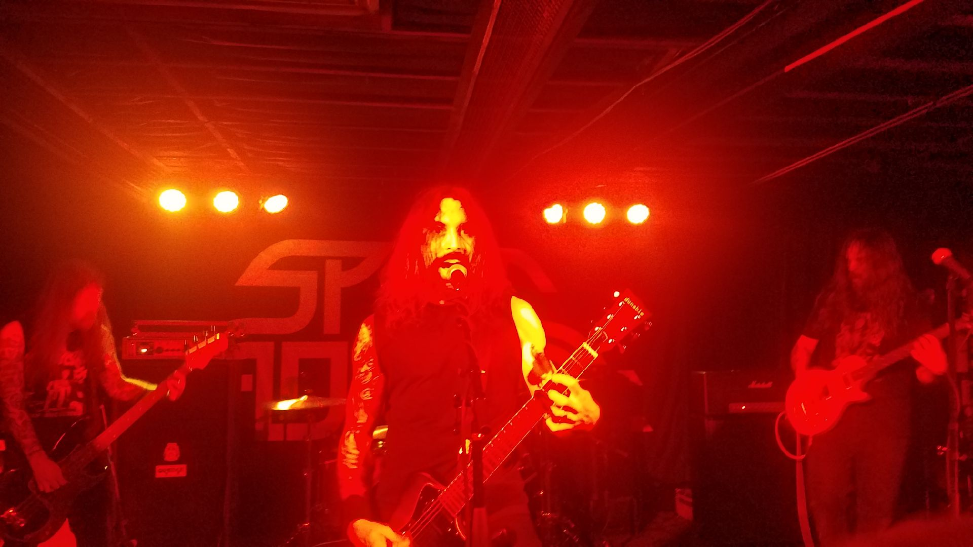 Heavy metal band Spirit Adrift performing live in Phoenix, May 2019